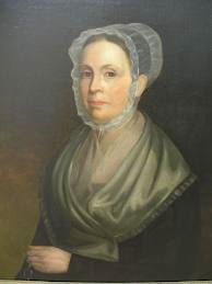 Oil Painting on display at Livingston Backus House